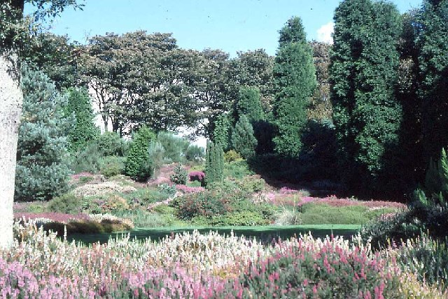 Ness Botanic Gardens, Wirral.